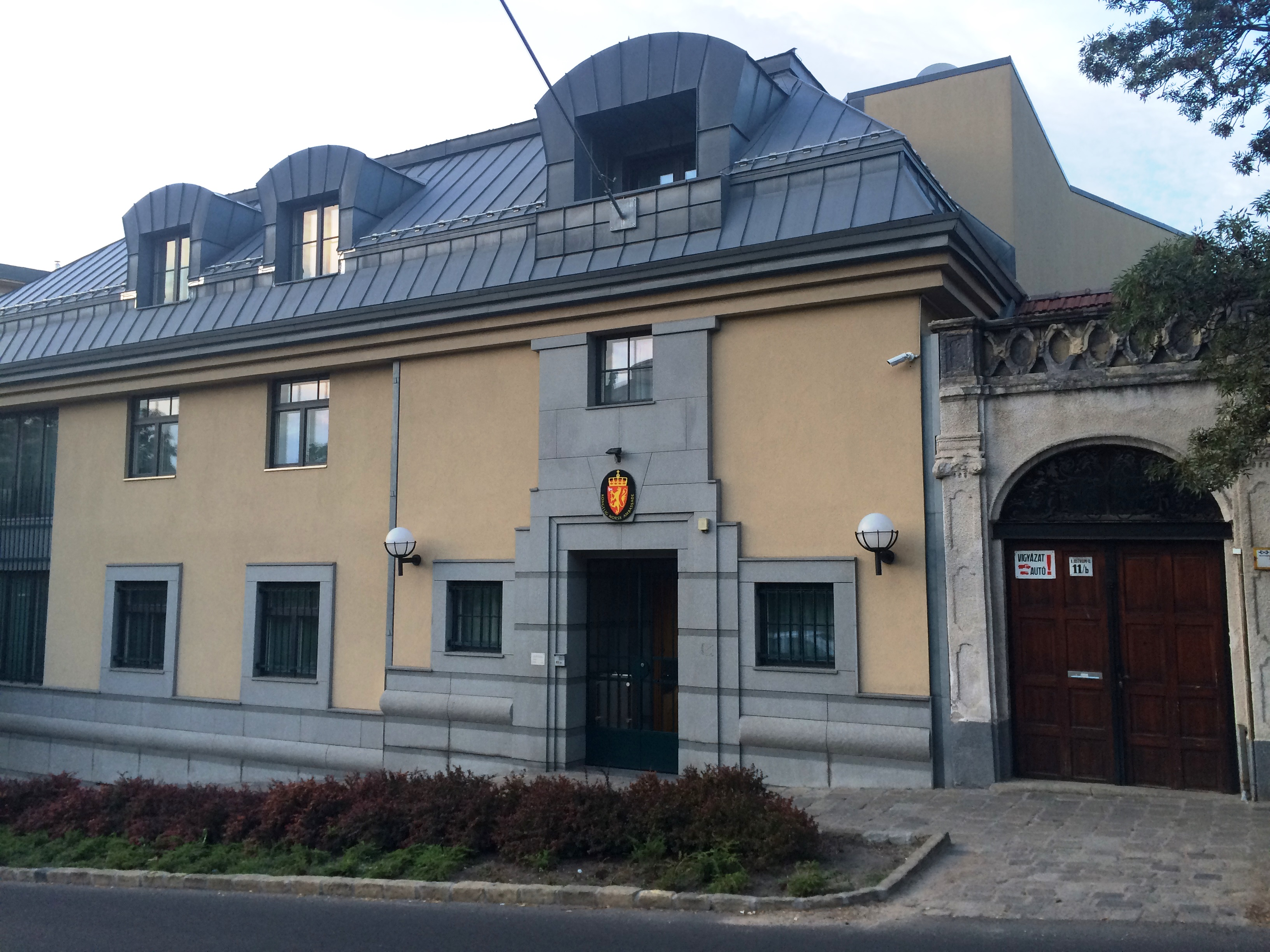 House at the Ostrom Utce street in Budapest, Hungary. This is the Norwegian embassy (2015)